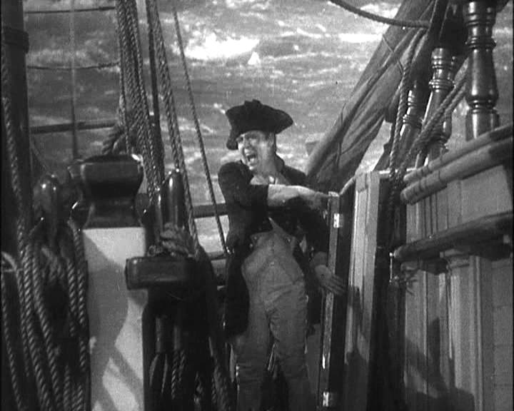 Charles Laughton as Captain Bligh in a screenshot from the trailer for the film Mutiny on the Bounty.